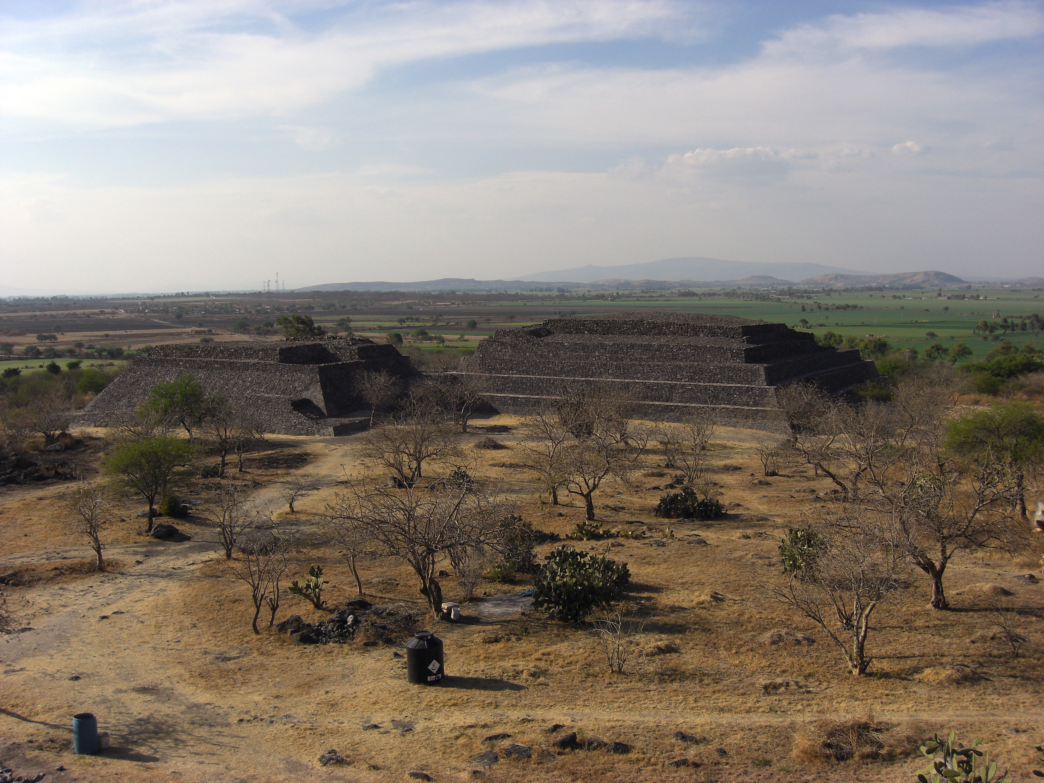 View of the rear of a two pyramid enclosed plaza at the Peralta archaeological site, Guanajuato, Mexico.